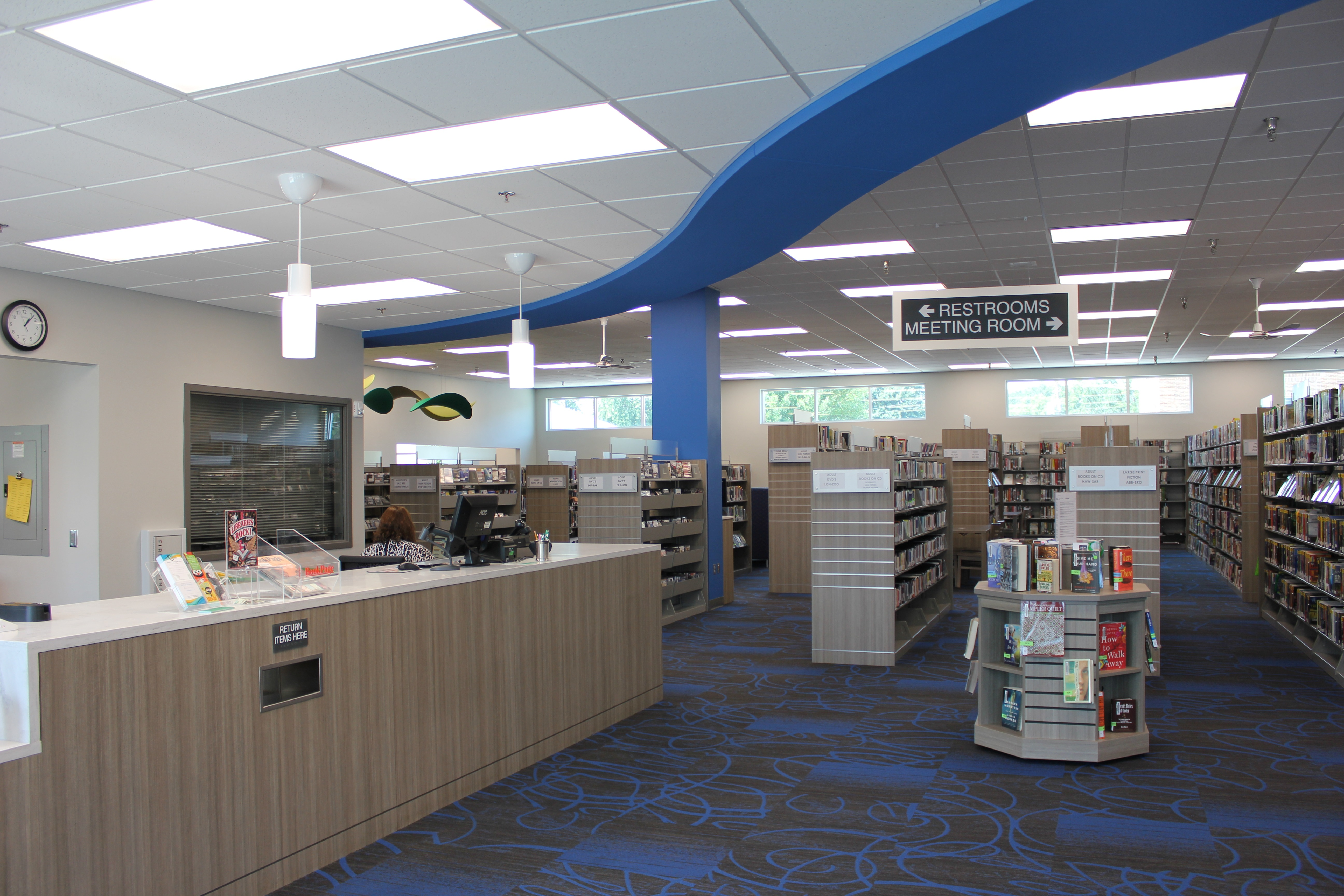 Entrance and front desk of the Le Mars Public Library